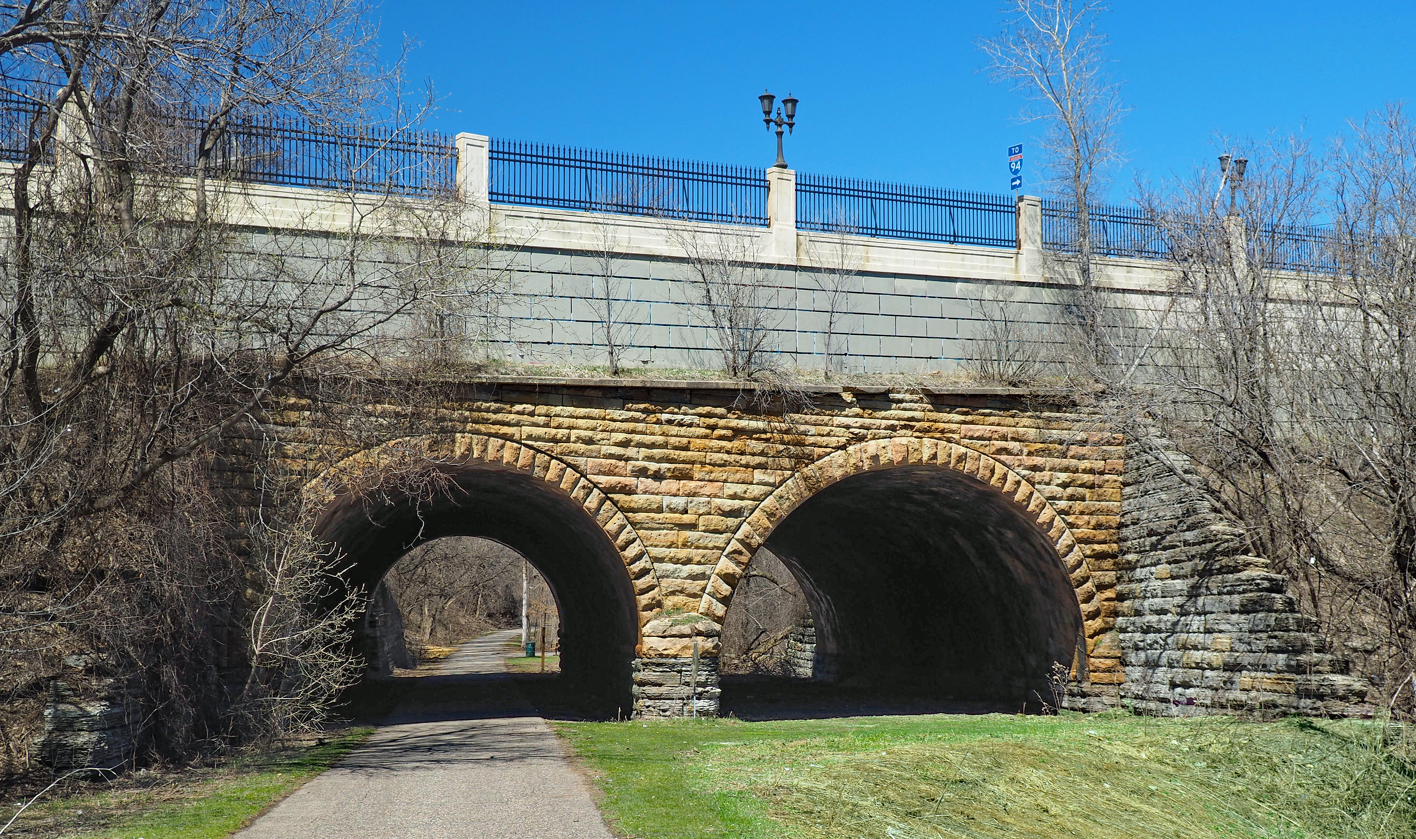 Seventh St Improvement Arches over the Bruce Vento Regional Trail, Swede Hollow Park, Saint Paul, Minnesota, USA. Viewed from the south.